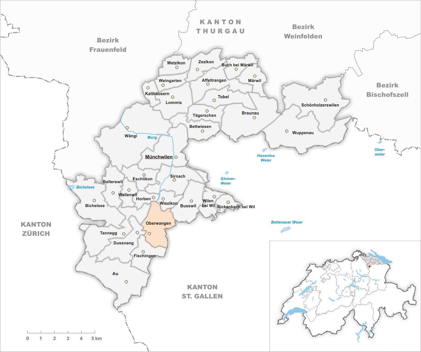 Municipality Oberwangen